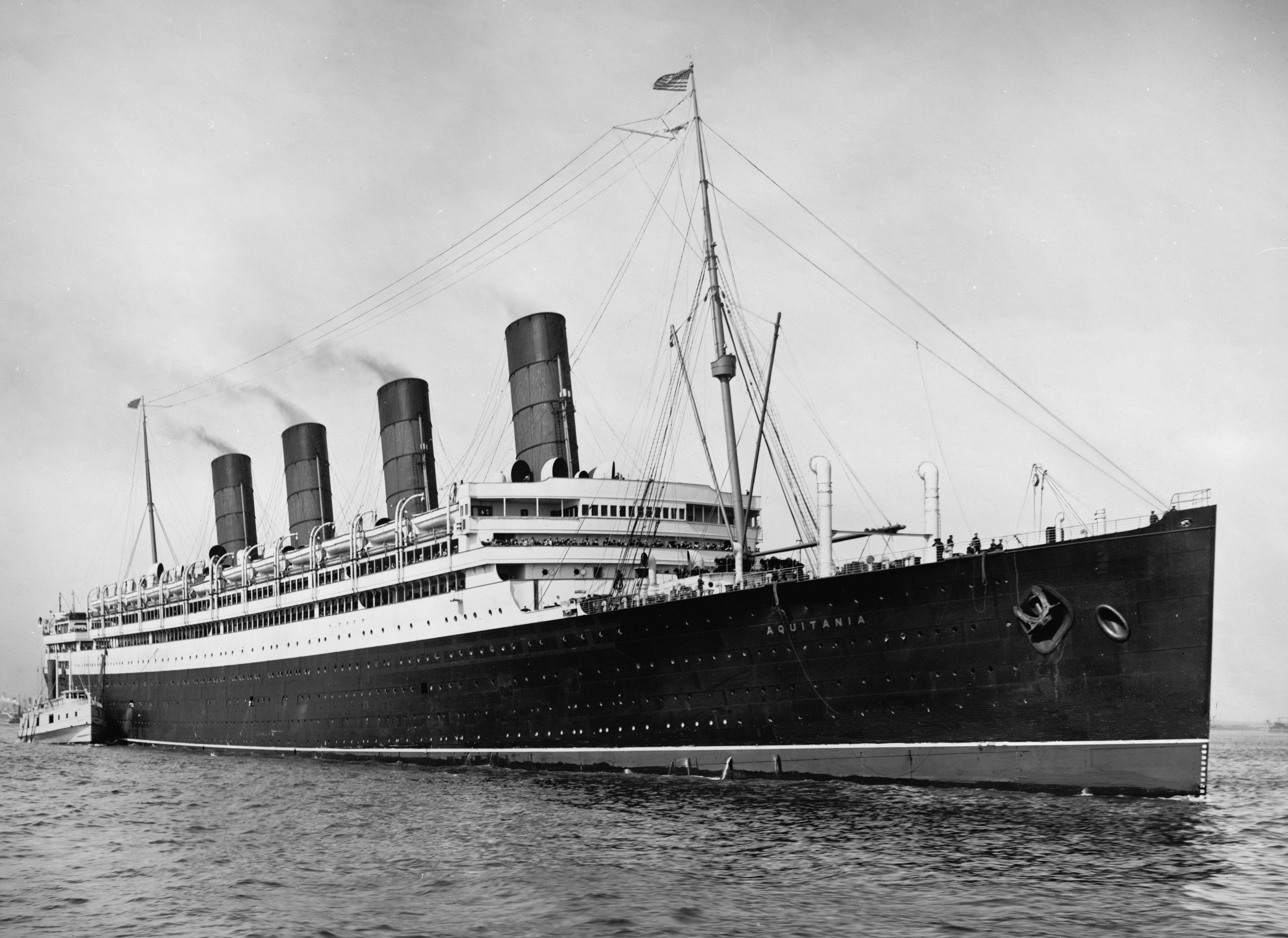 RMS Aquitania, Cunard Line. Location unknown.